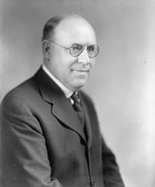 former congressman Evan John Jones of Pennsylvania.